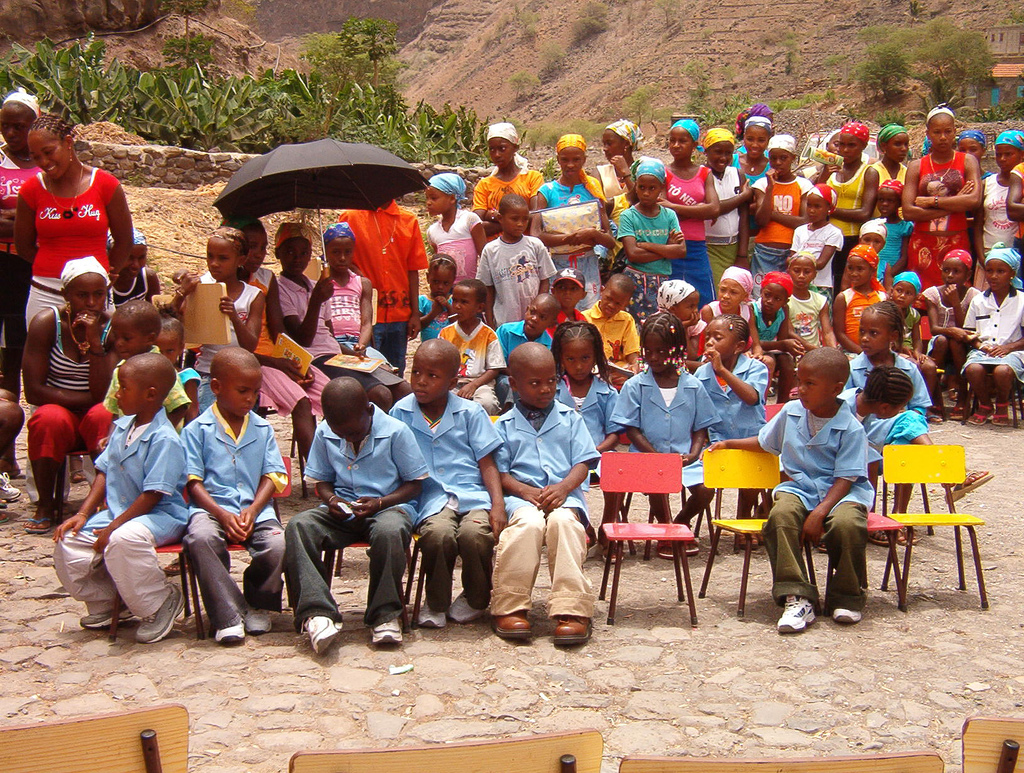 The kindergarten graduation in Santiago island, Cape Verde -- 500 guests, 13 kids.